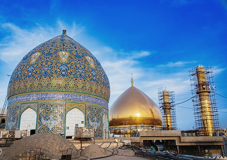 Al-Askari Mosque in Samarra